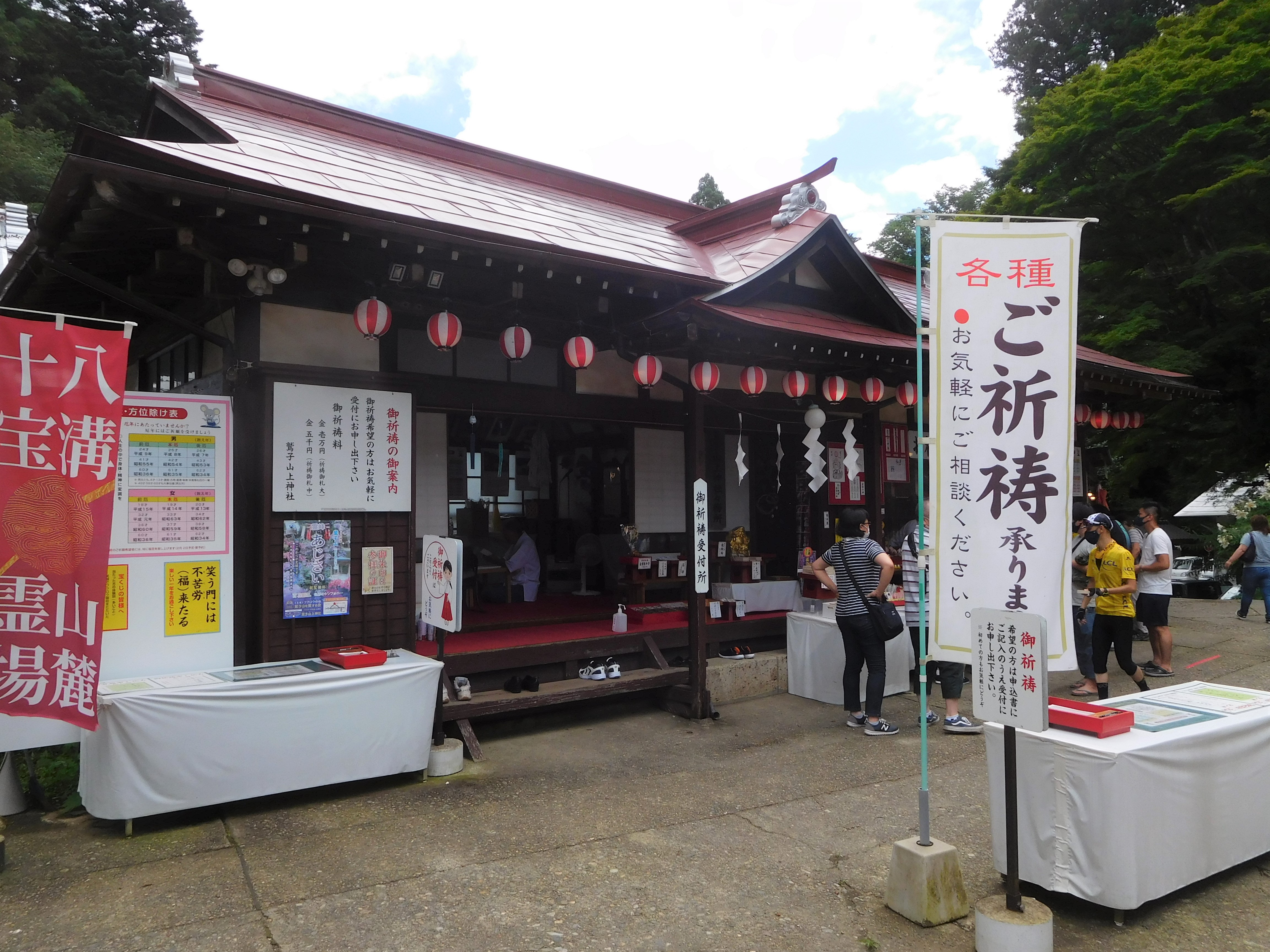 This is a shire office of Torinoko Sansho shrine in Nakagawa, Tochigi, Japan.